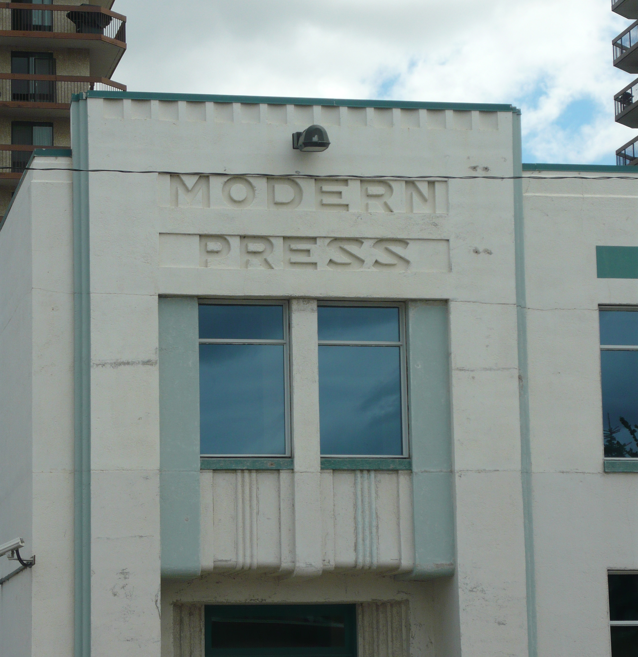 Modern Press Building (Facade Detail) (1949), 446 Second Avenue North at 26th Street East, Saskatoon, Saskatchewan, Canada. Architect: Firm of Webster and Gilbert. The interior and exterior were substantially altered in 2011-2013.